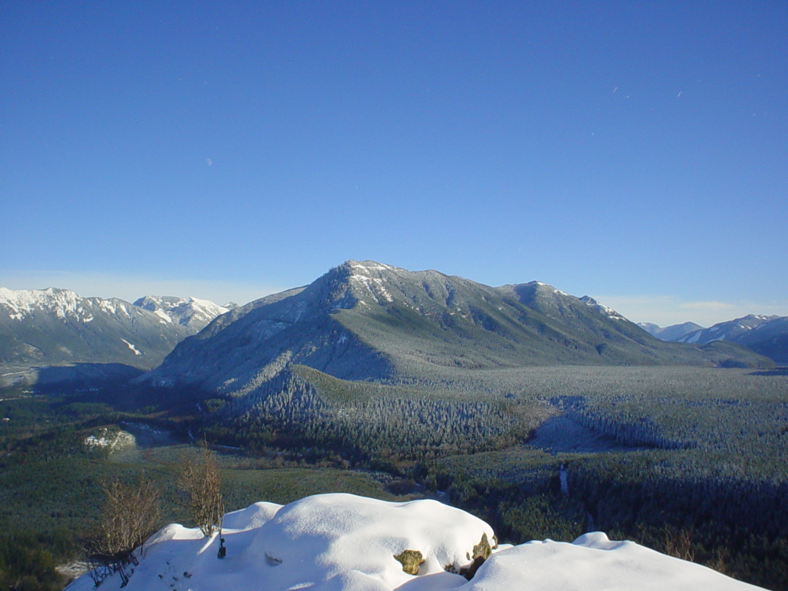 Mount Washington as seen from Rattlesnake Ledge. The mountain lies on the western margin of the Cascade Range. It is located east of Seattle, WA, USA by about 30mi (48km). – Mount Washington is the peak nearly in the center of the photo. The little "bump" half way down in front is Cedar Butte. The peak on the right is Mt. Kent. Below Mt. Washington in the valley floor to the far right is Chester Morse Lake. To the left and below Mt. Washington is Grouse Ridge, a morraine left by a now extinct glacier that occupied the Middle Fork of the Snoqualmie River.